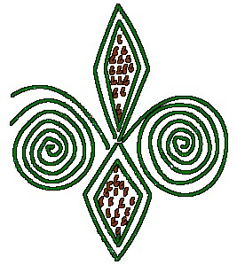 The famous motif of Skara Brae